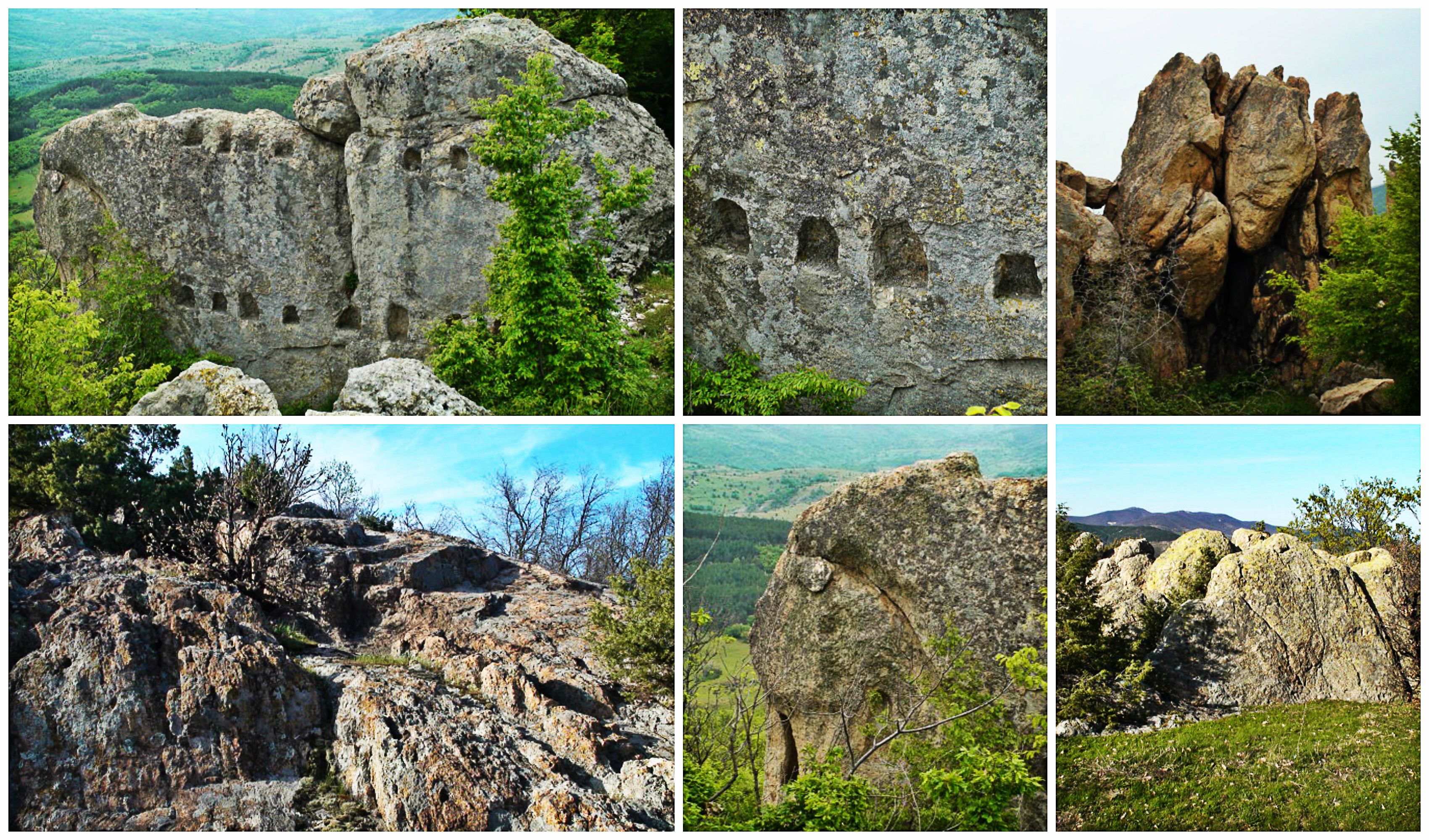 Sanctuary complex Angel Voivoda Bulgaria 01